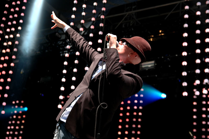 Lead singer James Pebworth from the Californian band Orson